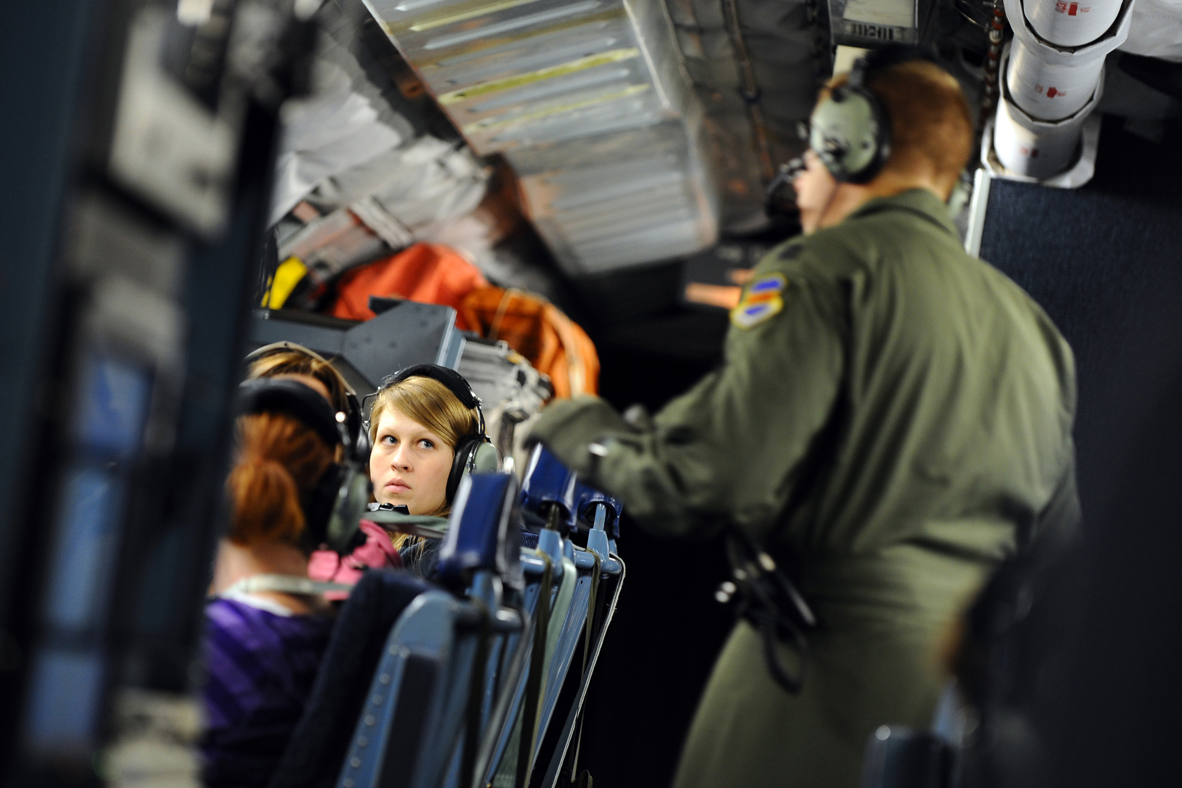 OFFUTT AIR FORCE BASE, Neb.-Megan Anderson, wife of Captain Christian Anderson a pilot for the 45th Reconnaissance Squadron, listens to preflight instruction prior to taking off in the Open Skies, OC-135B, aircraft during a spousal incentive flight hosted by the 45th RS, here, May 21. 40 seats on two separate flights were reserved for the spouses of the 45th RS Airmen in order for them to get a firsthand look at their spouse’s daily operations. U.S. Air Force Photo by Josh Plueger (released)